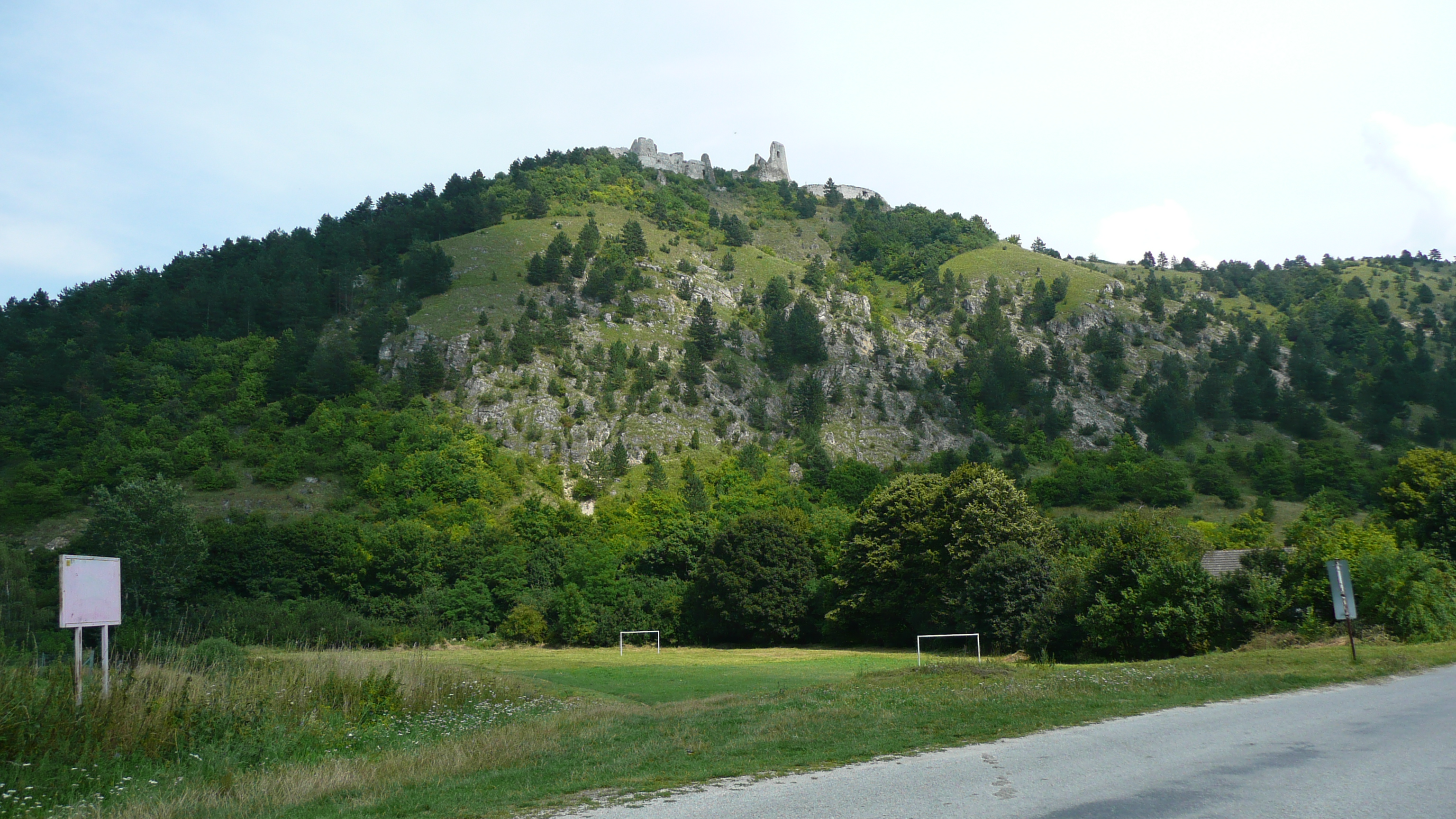 View at Čachtice's castle.